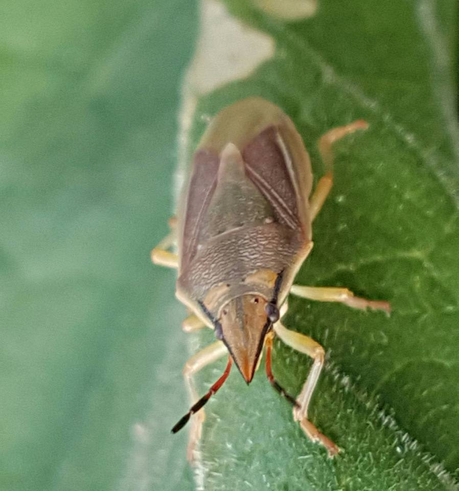 Acoloba lanceolata (Fabricius, 1803) - Hamerkop, Magaliesberg, South Africa